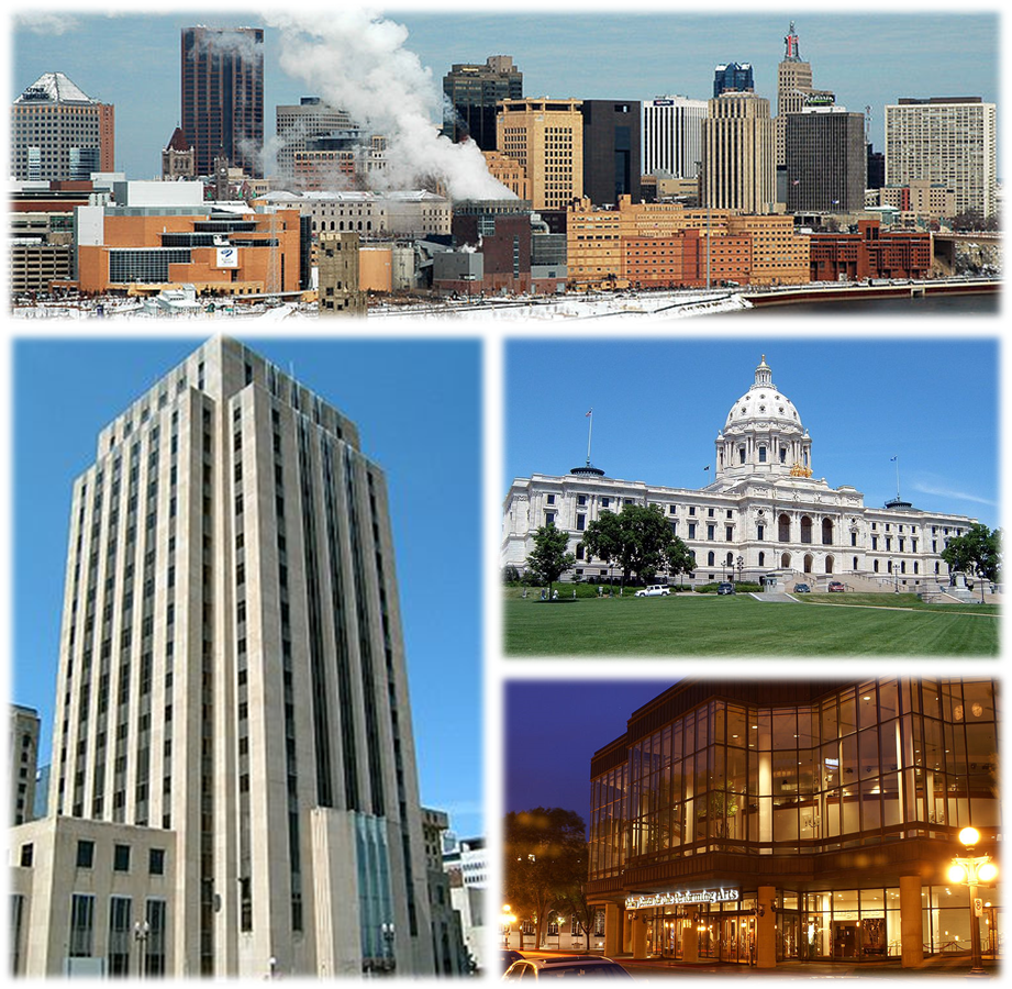 Saint Paul, Minnesota collage.